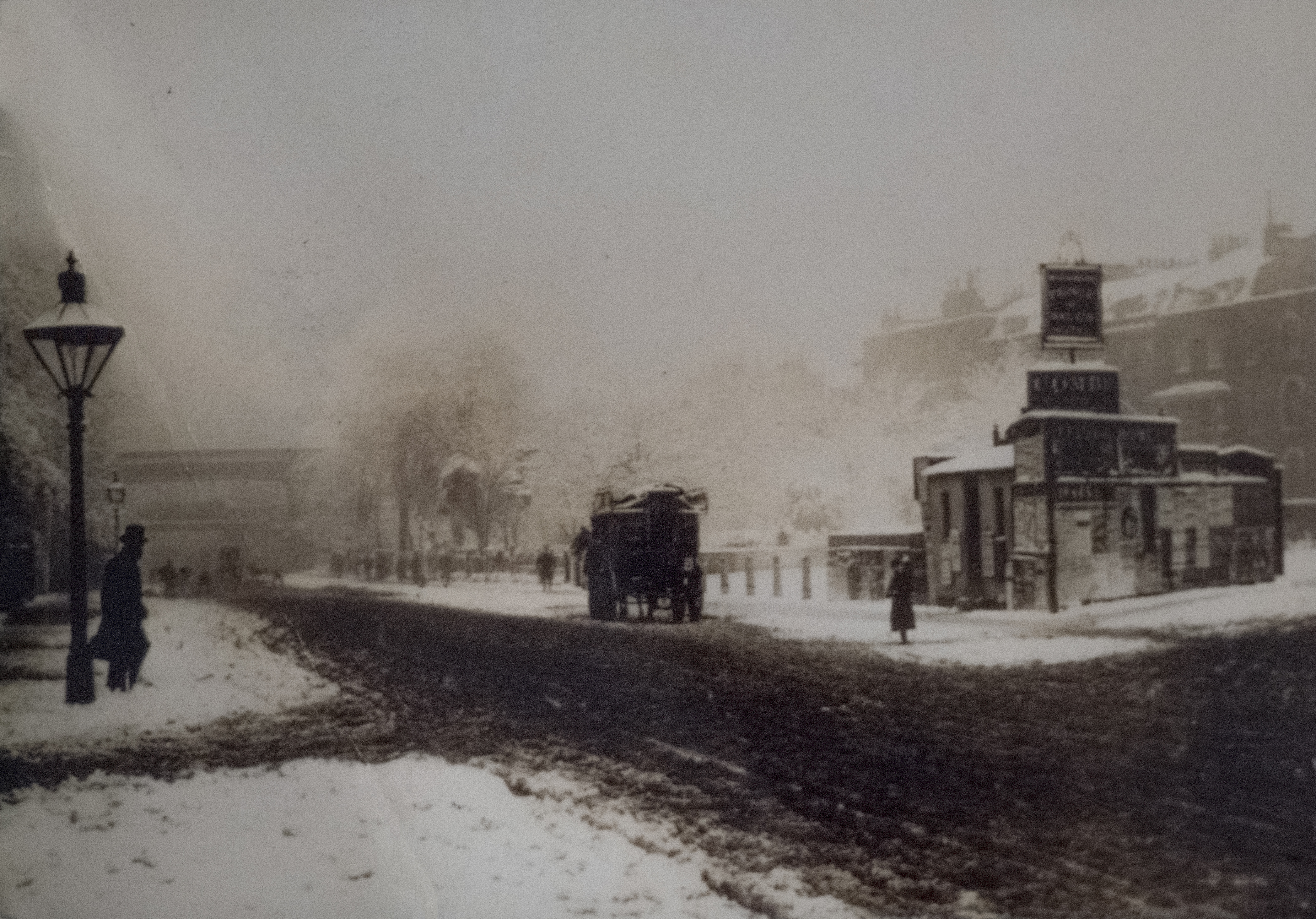 A view of Brixton Road from Acre Lane, London, winter 1883